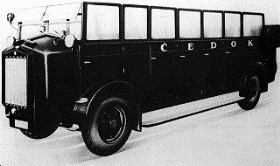 Tatra T23 bus.